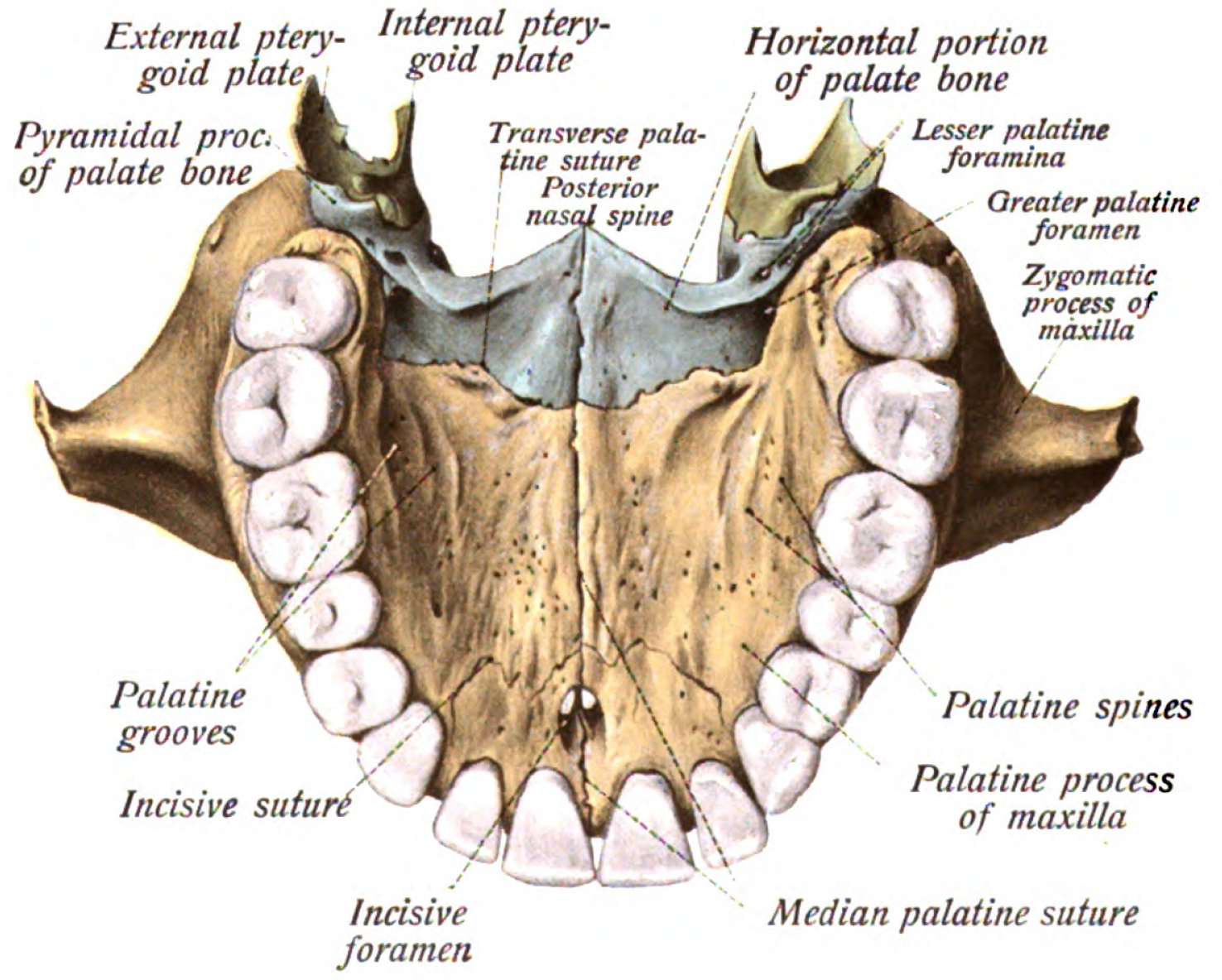 An anatomical illustration from Sobotta's Atlas and Text-book of Human Anatomy 1909